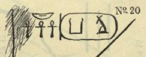 Red ink inscription from the stairway of the pyramid of Baka, excavations of Barsanti, 1905 drawing